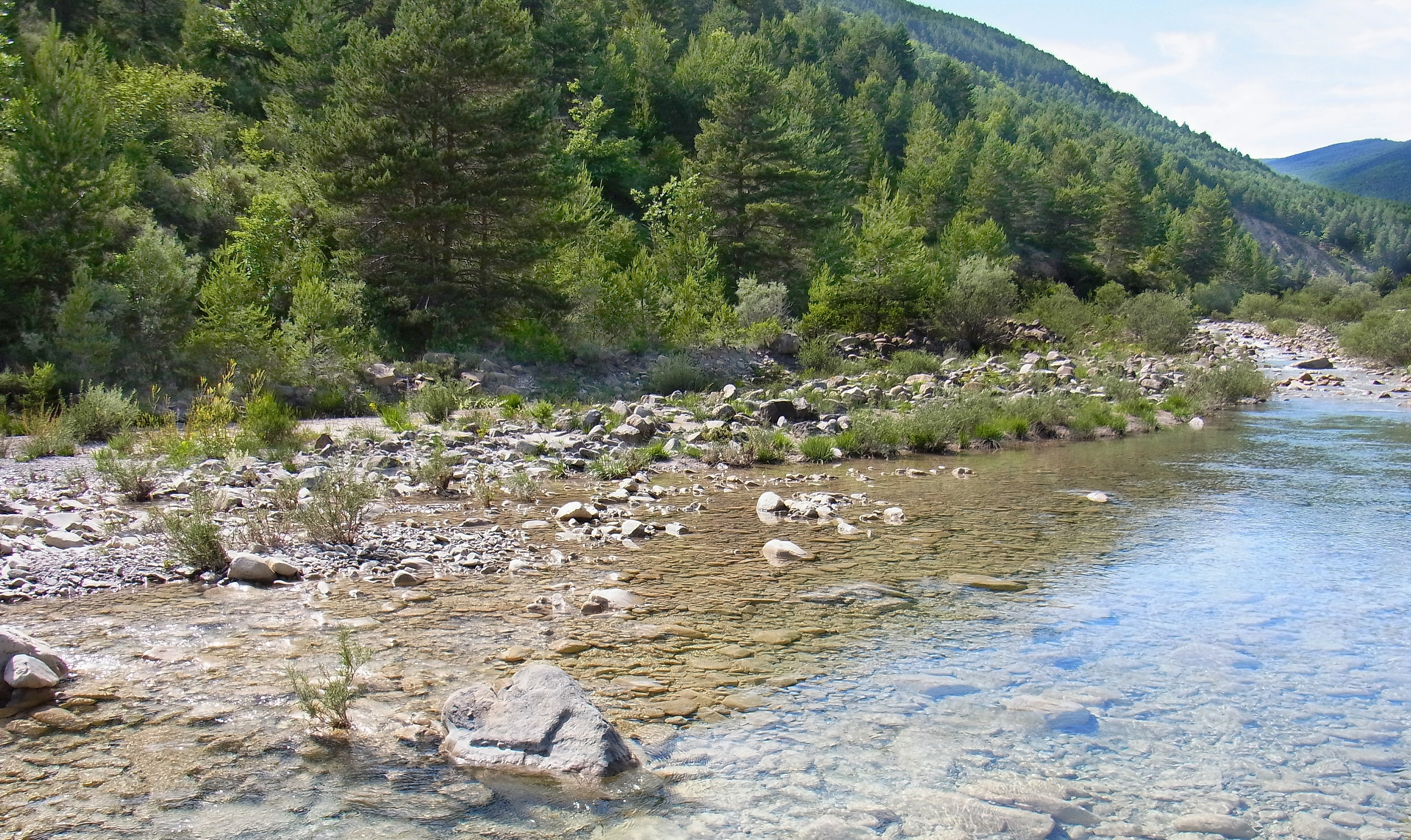 Landscape with Omophron limbatum in Northern Spain, Vale de Solana east of Jaca at 2013-06-30